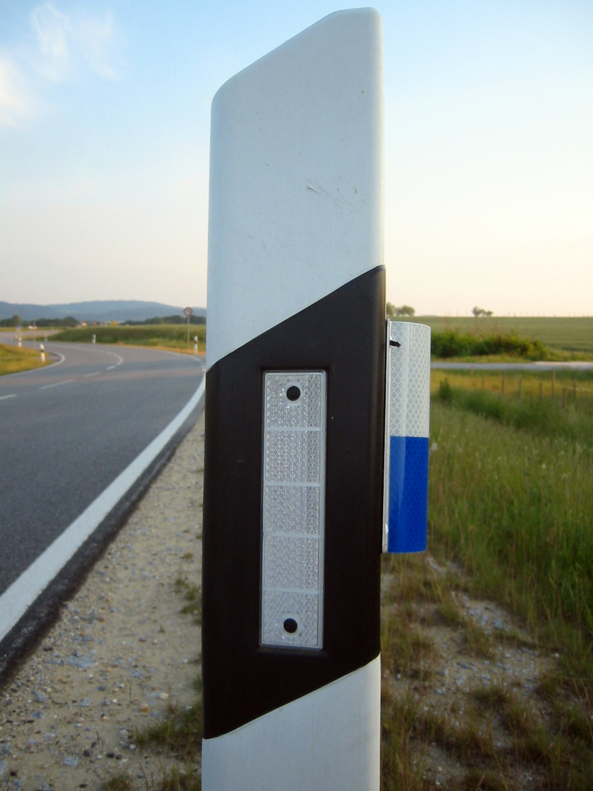 Machine reflecting and colouring the light of the cars in direction of animals, willing to cross the street.